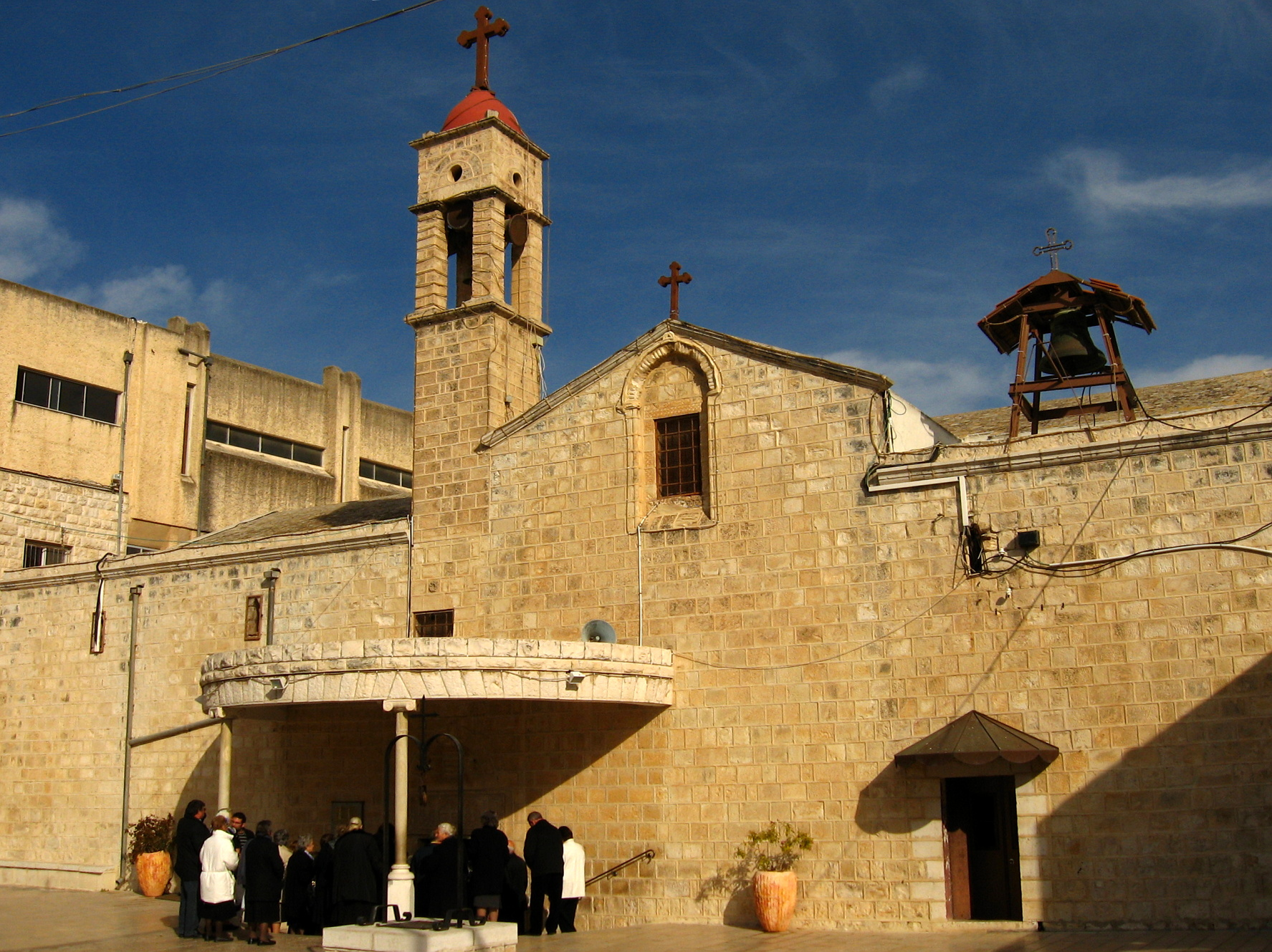 Greek Orthodox Church of the Annunciation, Nazareth, Israel.